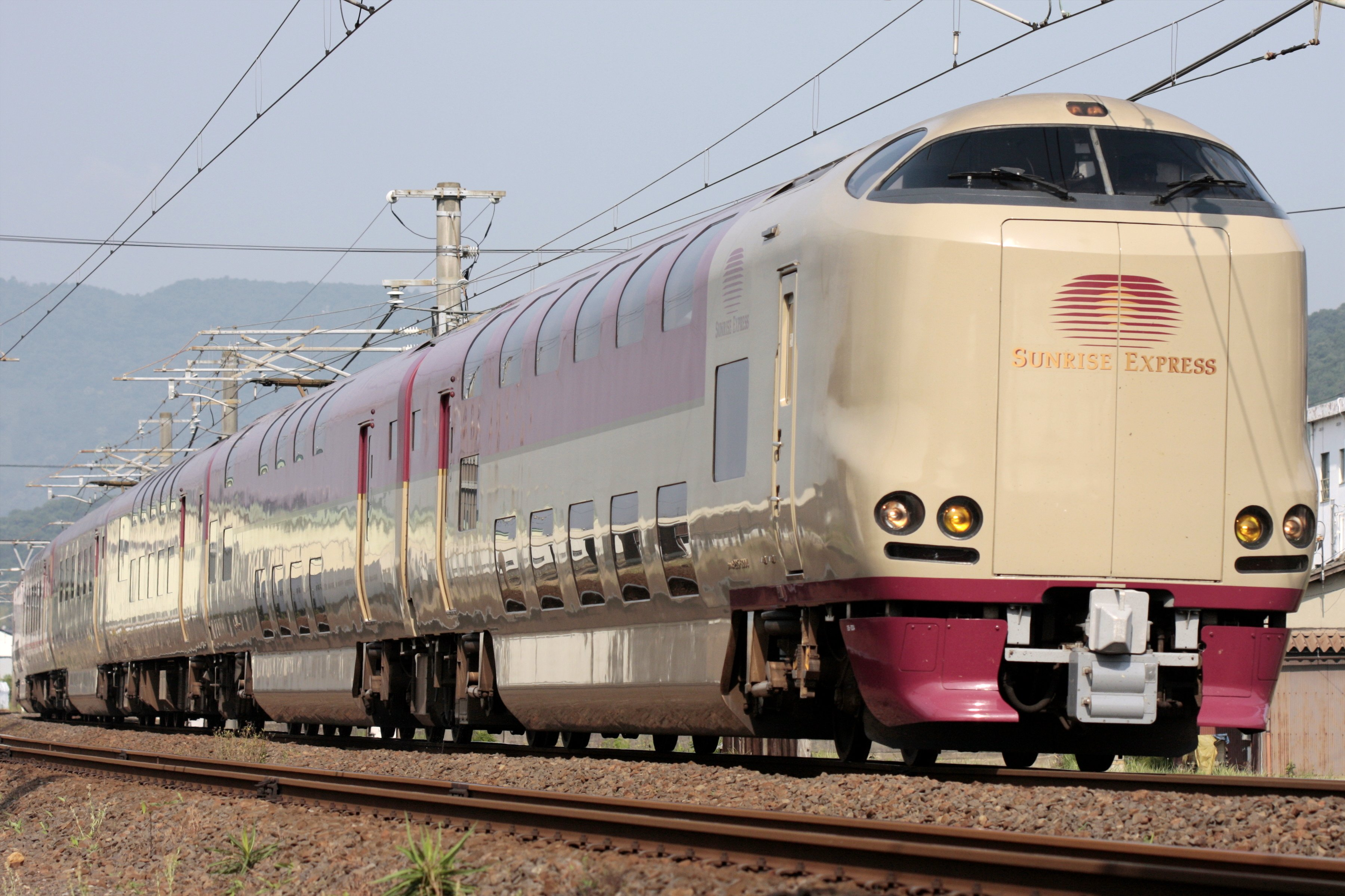 285 series EMU on the "Sunrise Seto" service on the Yosan Line between Kokubu and Hashioka